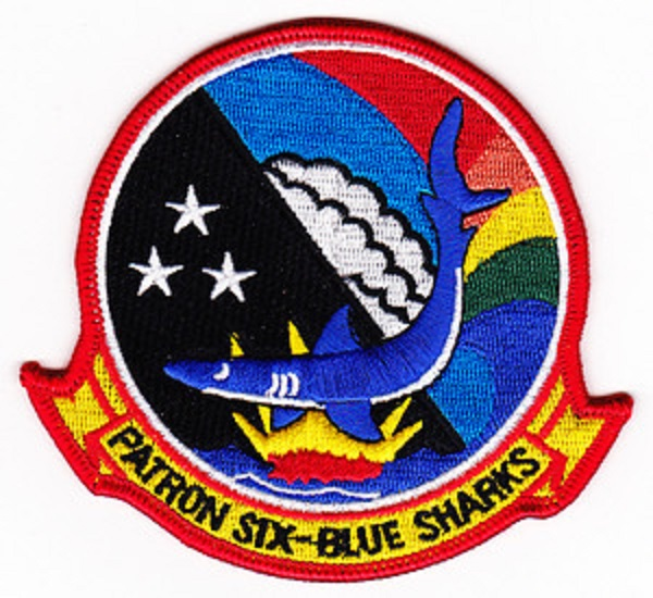 VP-6 patch.